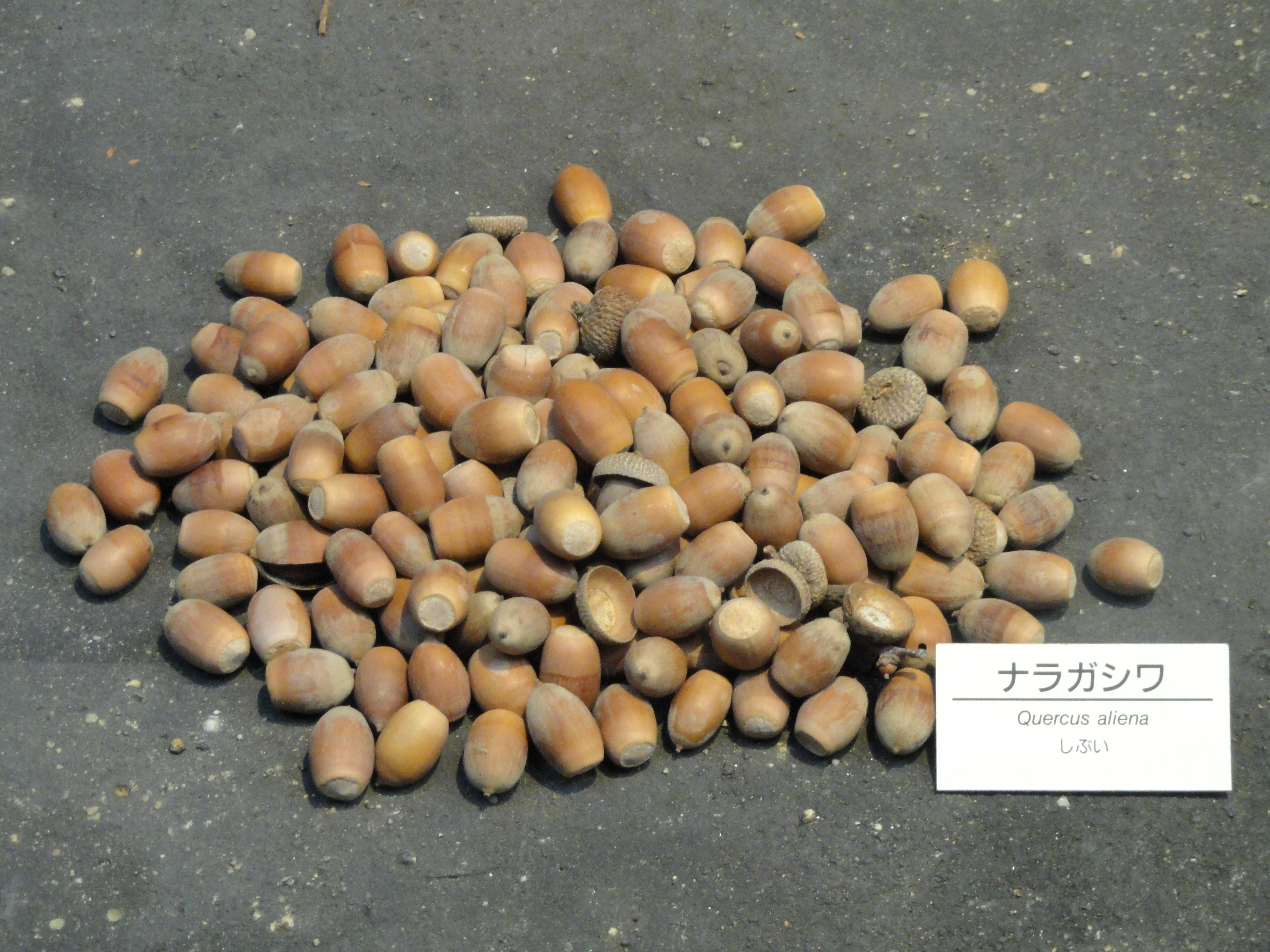 Exhibit in the Osaka Museum of Natural History, Osaka, Japan.